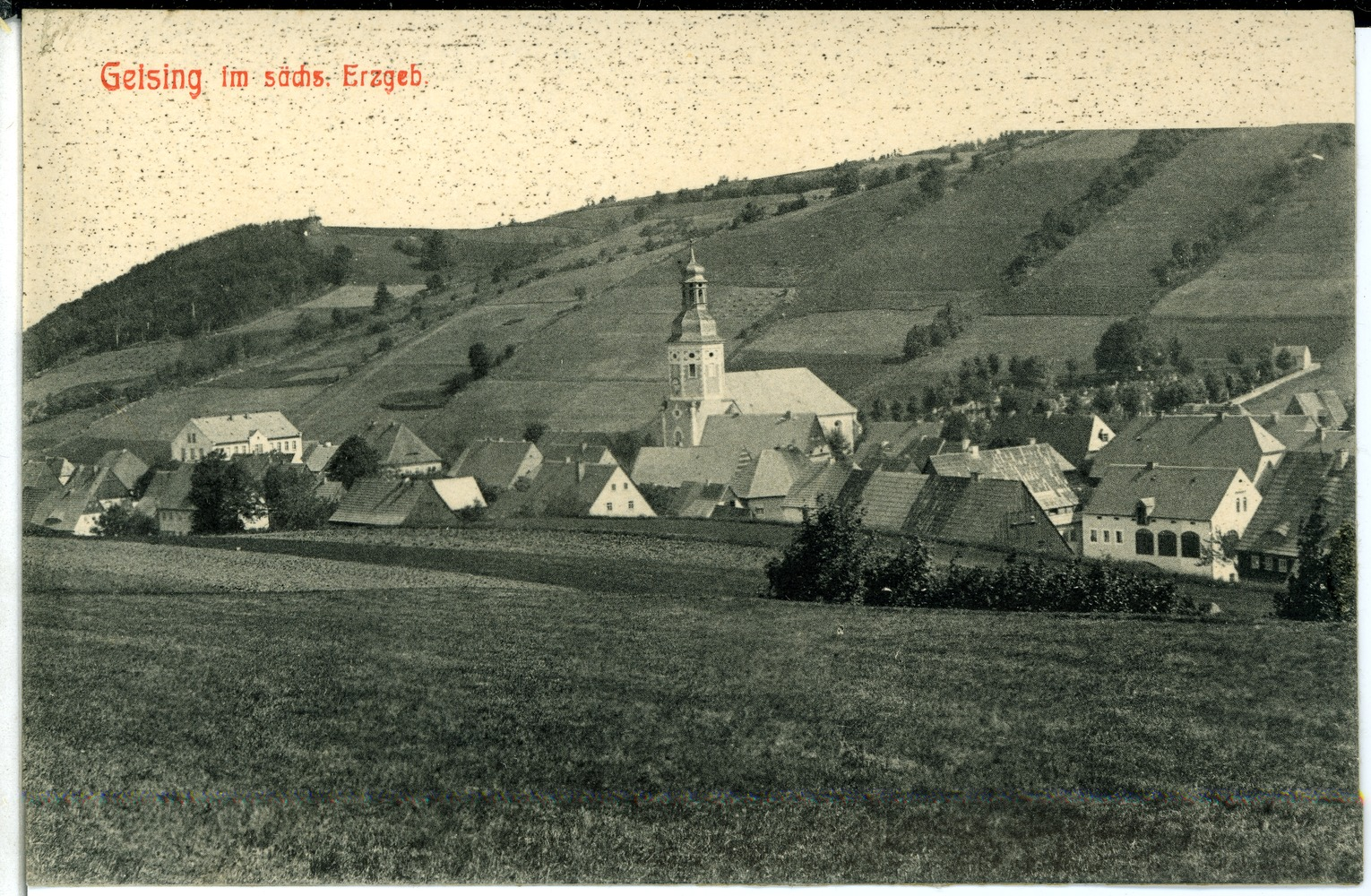 This postcard is from publisher Brück & Sohn in Meißen ( This postcard has a unique number 02303 and is available in a higher resolution at the publisher. This images was uploaded in a cooperation project between Wikipedians and the publisher.